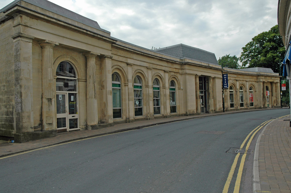 Nelson Museum, Old Market Hall, Monmouth